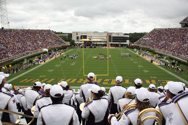 View from the Boneyard at Dowdy-Ficklen Stadium.